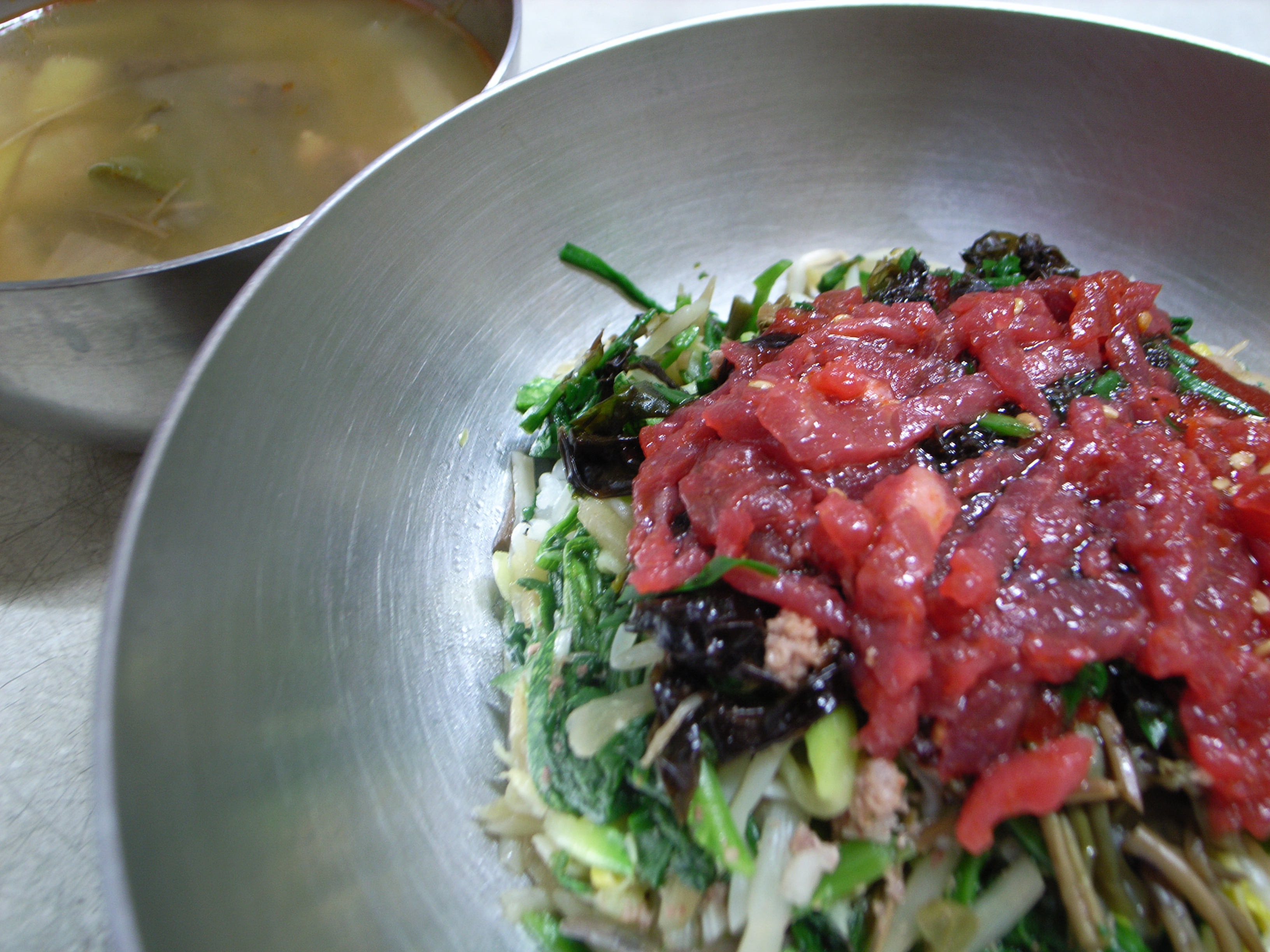 Jinju bibimbap, a variety of bibimbap which originated in Jinju, South Korea.